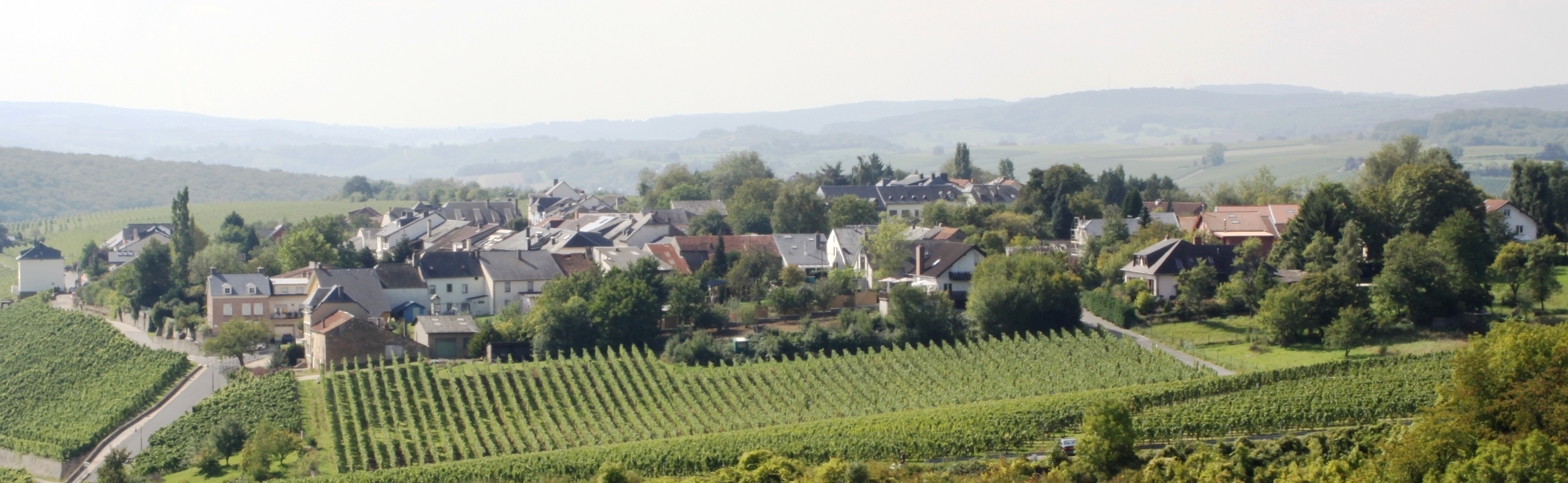 Wormeldange-Haut seen from the Köppchen